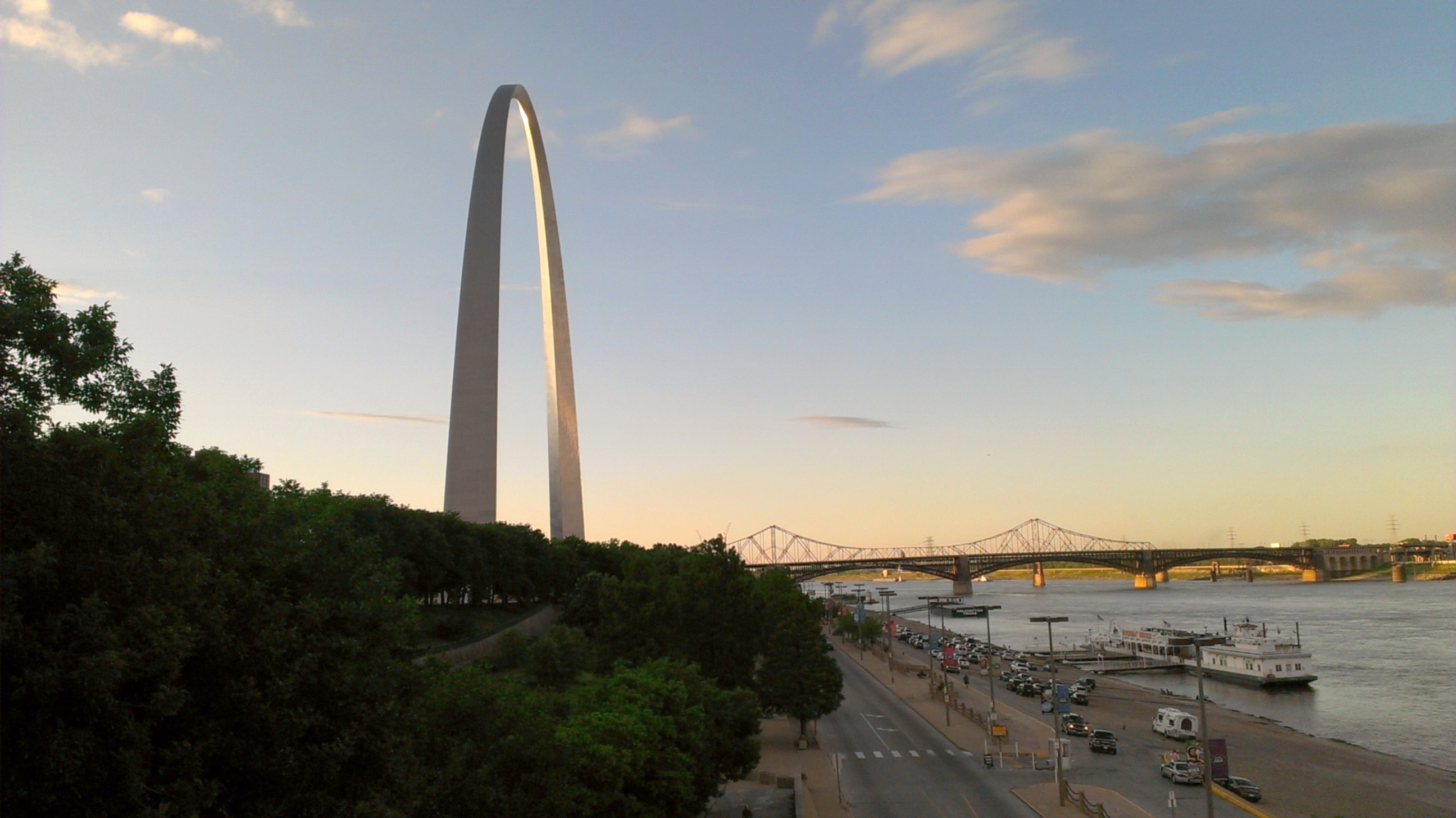 The Gateway Arch and the Mississippi River at the Jefferson National Expansion Memorial in St. Louis, Missouri.